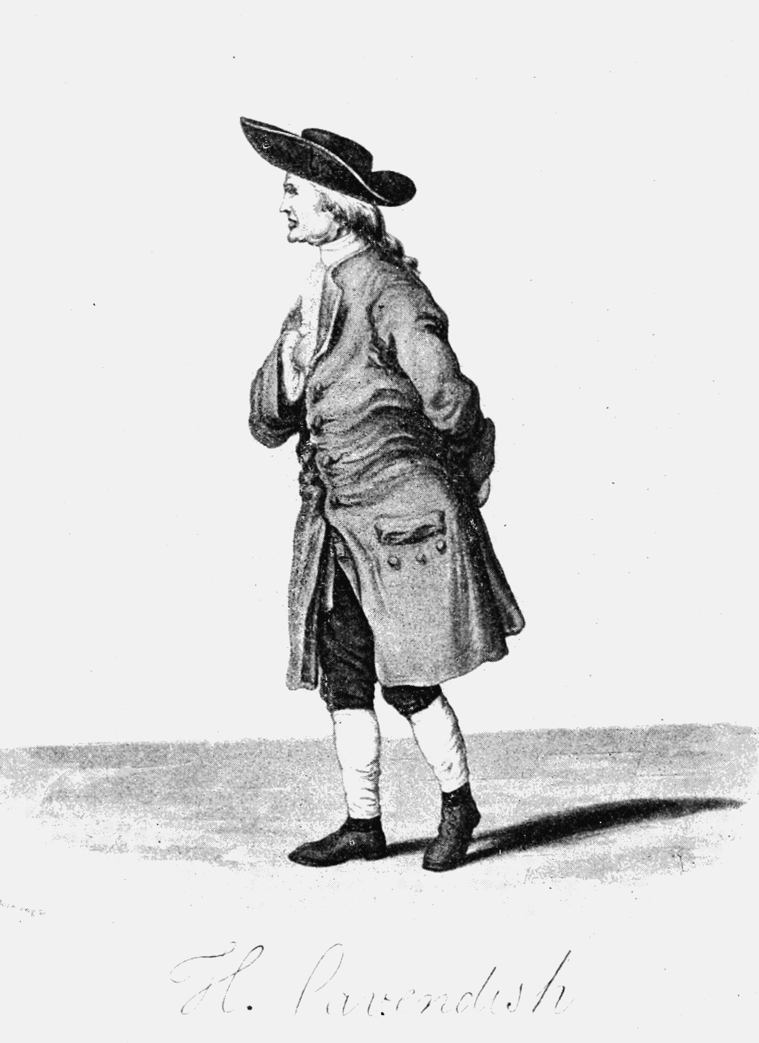 Henry Cavendish